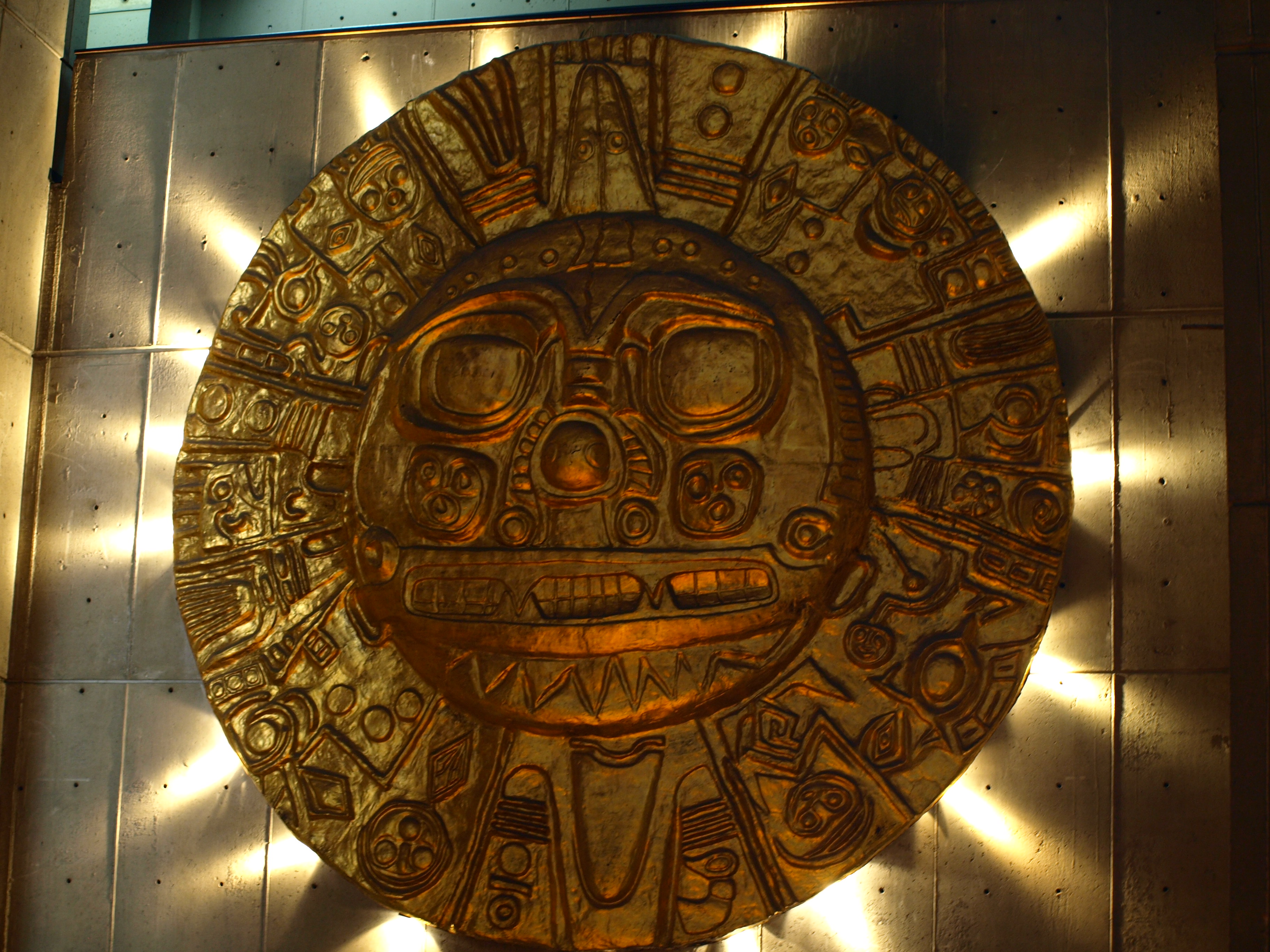 The Echenique Plaque. One of the best museums in town, Lima's National Museum is a huge exhibition of Peru's rich art, history and culture.